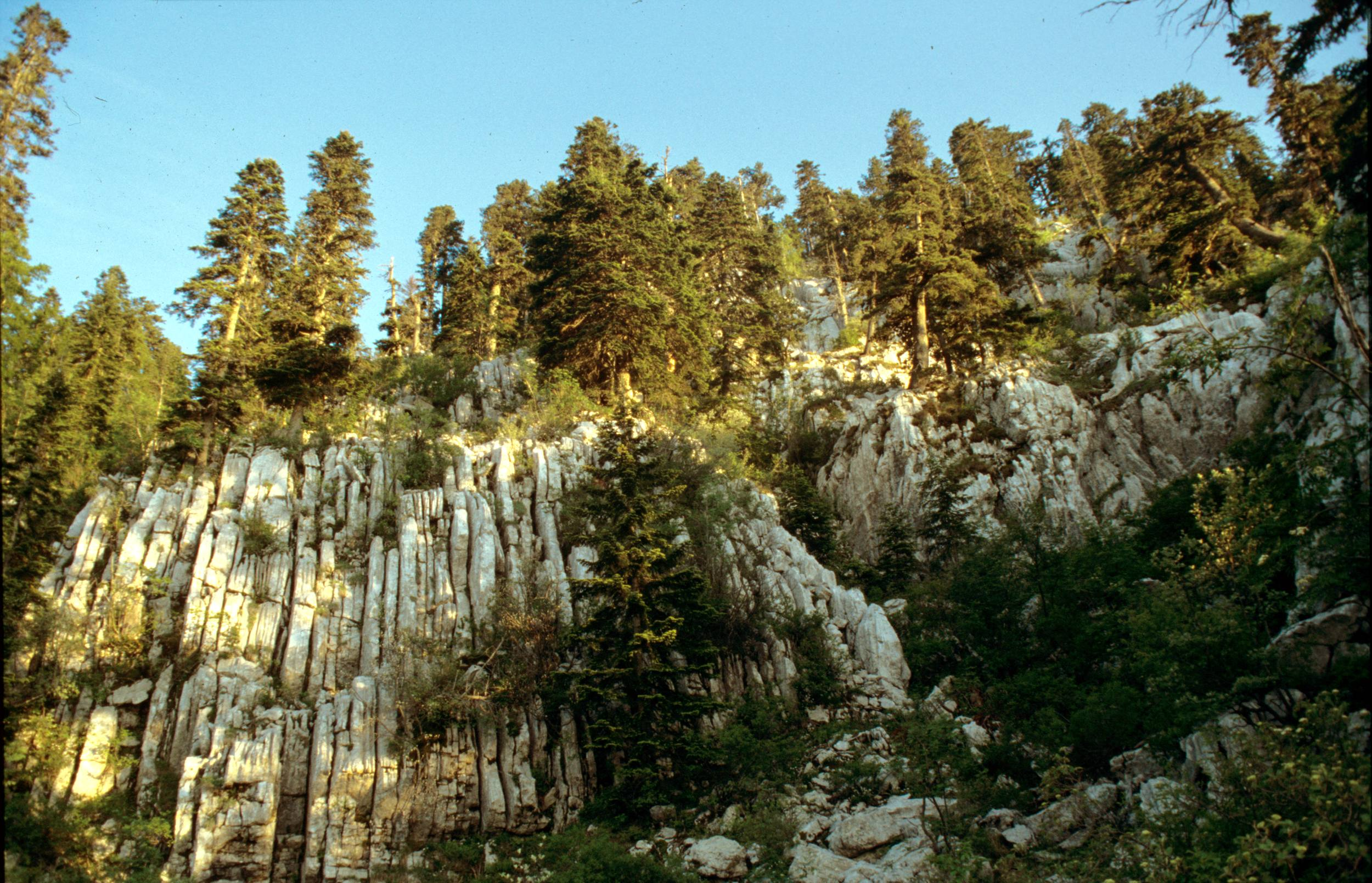 An endemic vegetation type is the pure fir forest on Orjen.